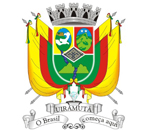 Coat of arm of the city of Uiramutã, Roraraima, Brazil.